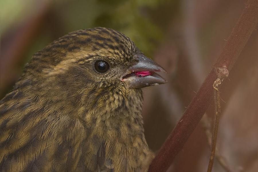 The species Pink-browed Rosefinch had been photographed during the birding trip of GoingWild at Pangolakha Wildlife Sanctuary in East Sikkim, Sikkim, India on 19.10.2015.